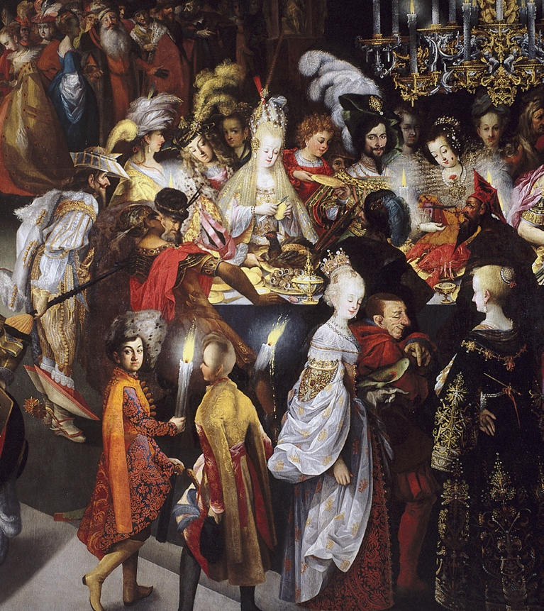 Bartlomiej Strobel: Feast of Herod with the Beheading of St John the Baptist Artist Bartlomiej Strobel (1591–1647) Alternative names Bartłomiej Strobel, Ströbel, Strubel, StroblDescriptionGerman-Polish painterDate of birth/death 11 April 1591 1647 Location of birth/death Wrocław ToruńWork periodBaroqueWork location Wrocław (1591-1634, 1636) Gdańsk (1618, 1634-1637), Elbląg (1637-1639), Toruń (1639-1647)Authority control : Q580102 VIAF: 64936310 ISNI: 0000 0000 5338 1346 ULAN: 500023218 LCCN: nr2002014499 GND: 124306411 WorldCat artist QS:P170,Q580102Title